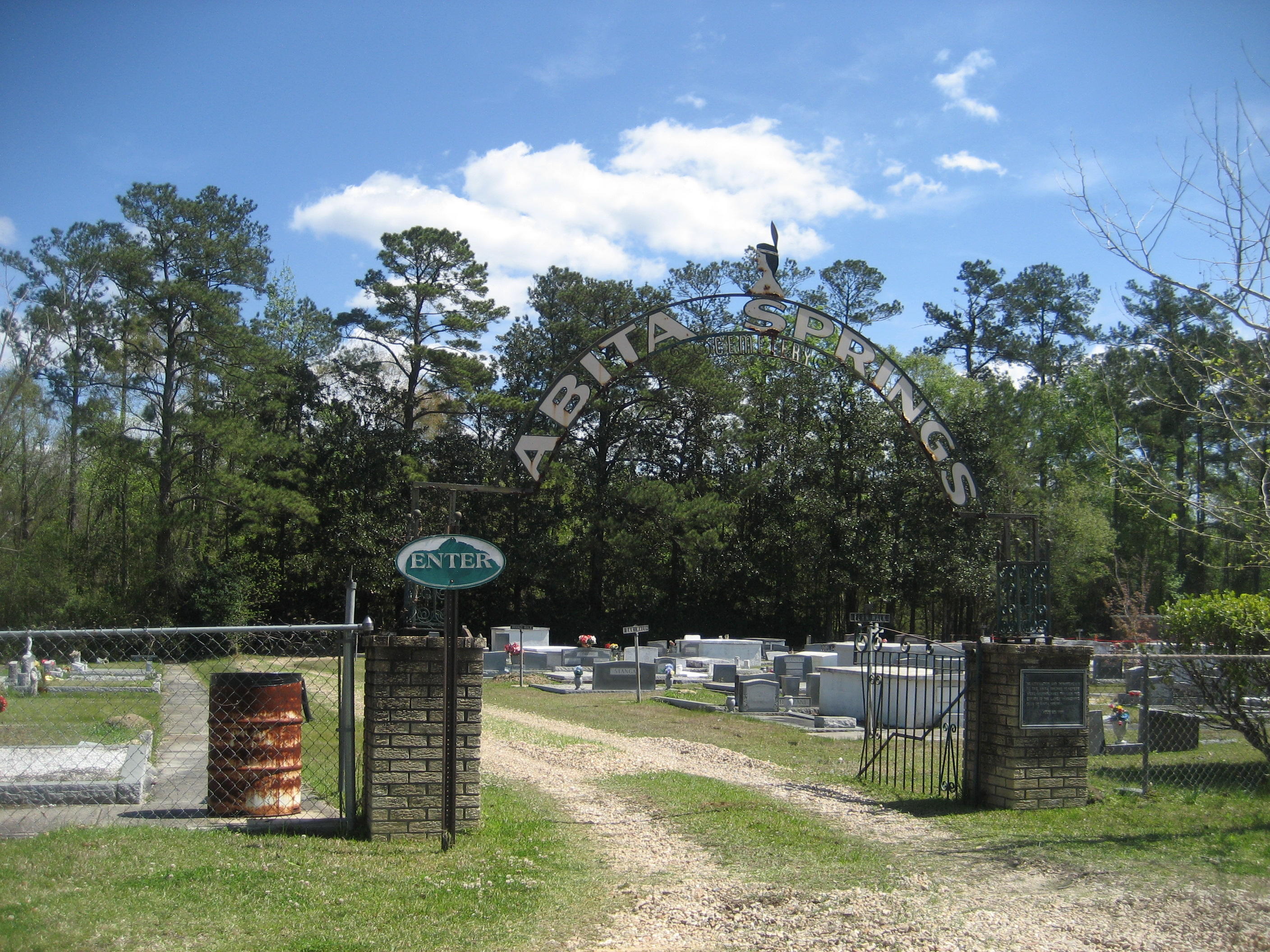 Cemetery, Abita Springs, Louisiana.